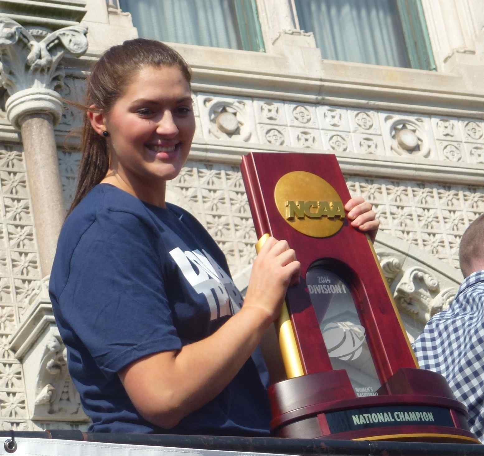 Stefanie Dolson, holding National Championship trophy while on the double-decker bus in the Championship celebration parade in Hartdford CT. The background is the State Capitol building.